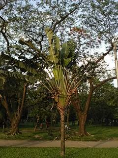 A travelers tree at Ramna Park .